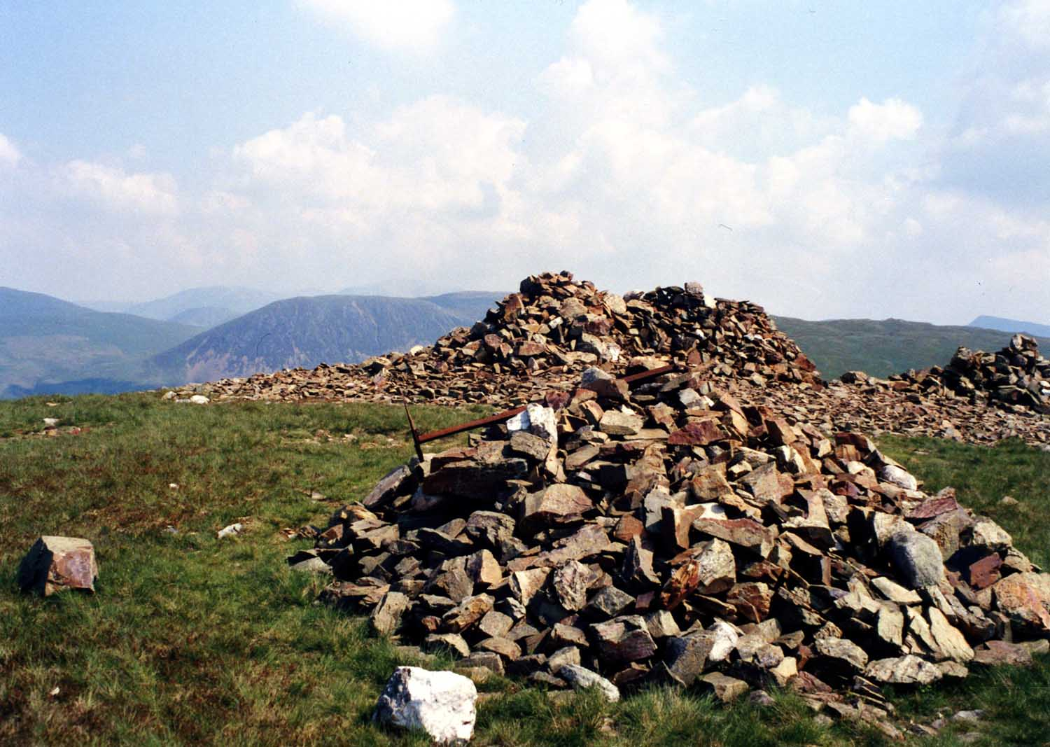 Personal photograph taken by Mick Knapton